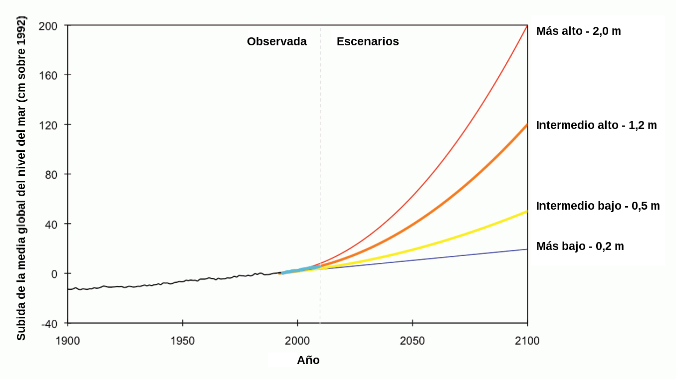 projections of global mean sea level rise (SLR) by Parris et al. (2012). Translated into Spanish